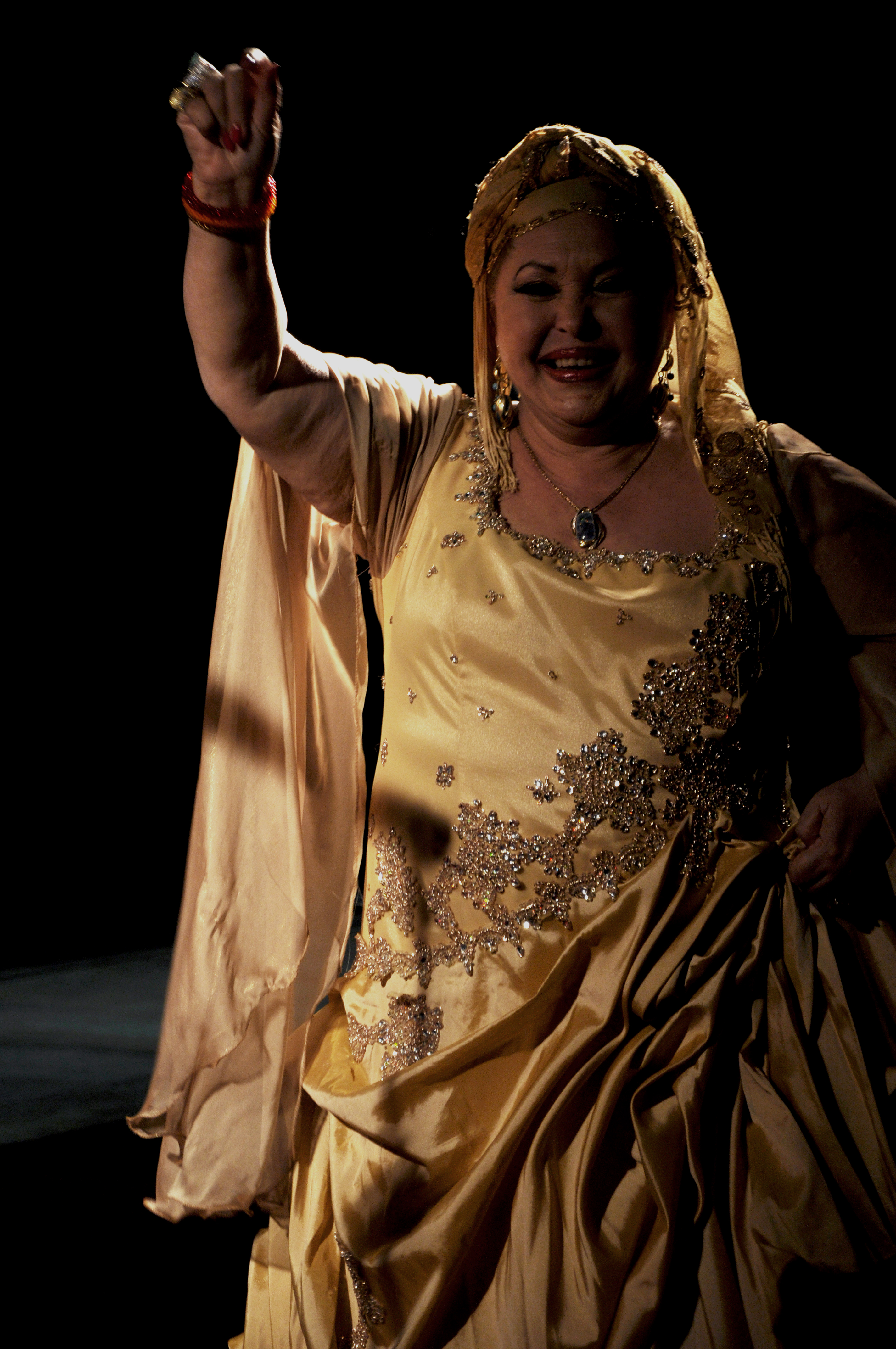 Esma Redjepova